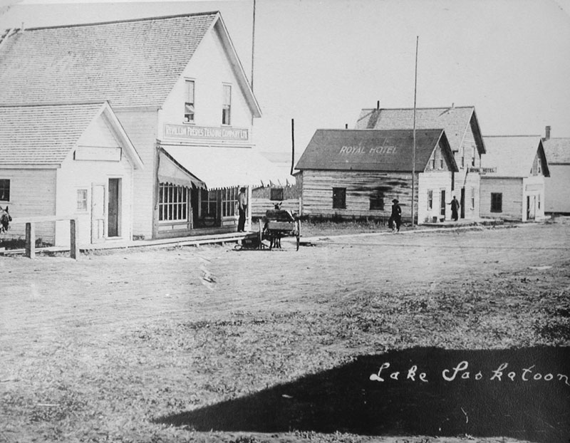 Situated in a natural meeting place, Lake Saskatoon was, in 1914, one of the largest settlements north of Edmonton